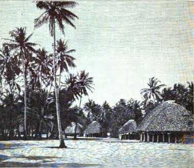 Matautu village Savai'i 1902 I downloaded image from Internet Archive org website [1] where it is stated that the book is NOT IN COPYRIGHT. I cropped it & uploaded to wikimedia commons. This image is from a book published 1902, so out of copyright.